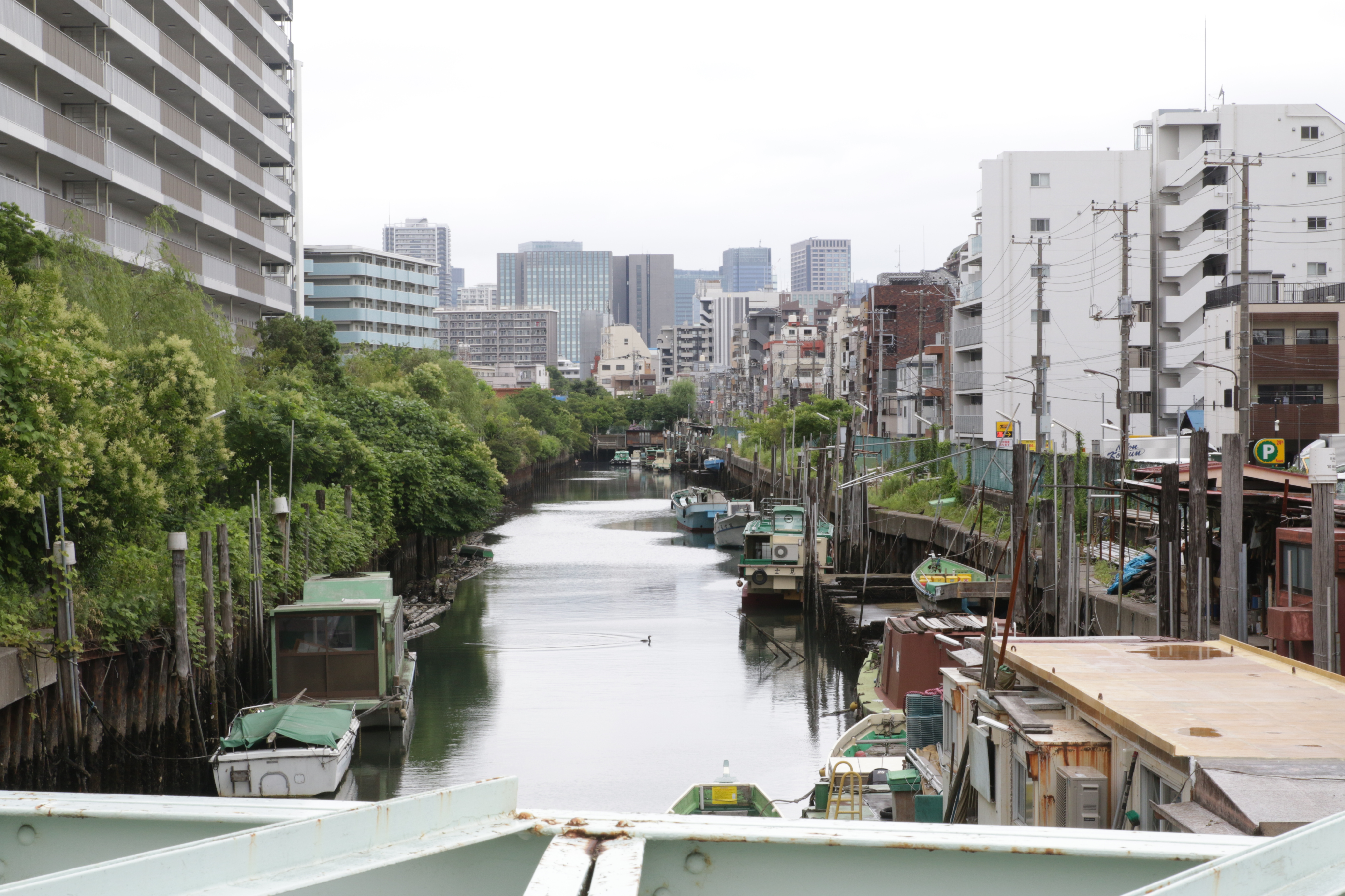 Etchujima-Gawa is a short river at Koto-ku, Tokyo.